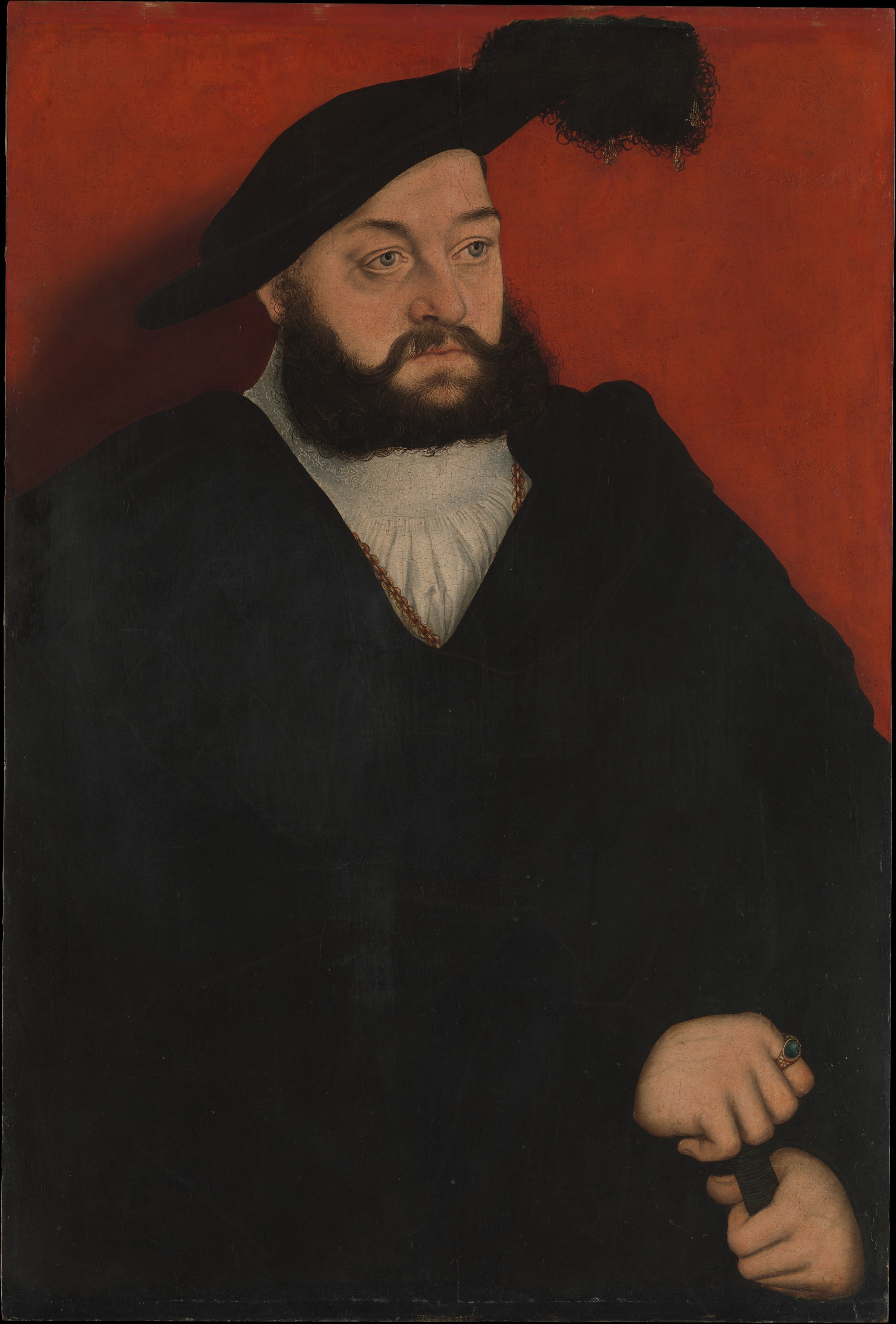 identification is secure, because of similar likenesses that explicitly name Johann. In the so-called Sächsisches Stammbuch (Sächsische Landesbibliothek, Dresden), with illustrations by the Cranach workshop of about 1540–46, he appears as "Hertzog Johans" next to his wife, Elisabeth of Hesse. A miniature portrait of about 1578–80 by Lucas Cranach the Younger (Kunsthistorisches Museum, Vienna), calls him "H[erzog]. Hans," and the Latin inscription on a likeness by Monogrammist I.S. describes him precisely as "Johann, Duke of Saxony, son of Georg."